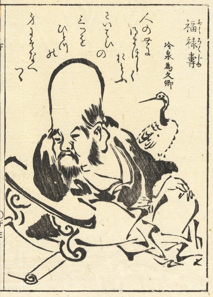 Fukurokuju, japanese god of happiness and wisdom (one of the shichi fukujin)